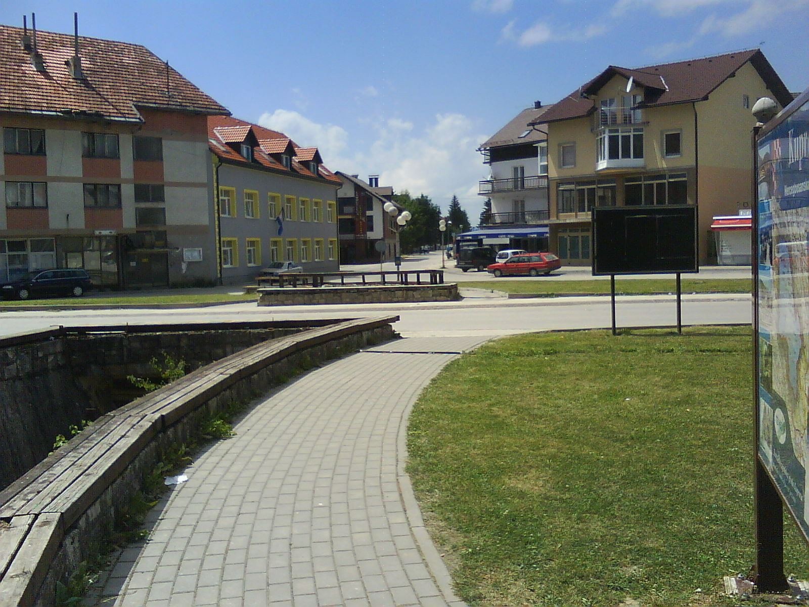 Square of Croatian knights in Kupres }